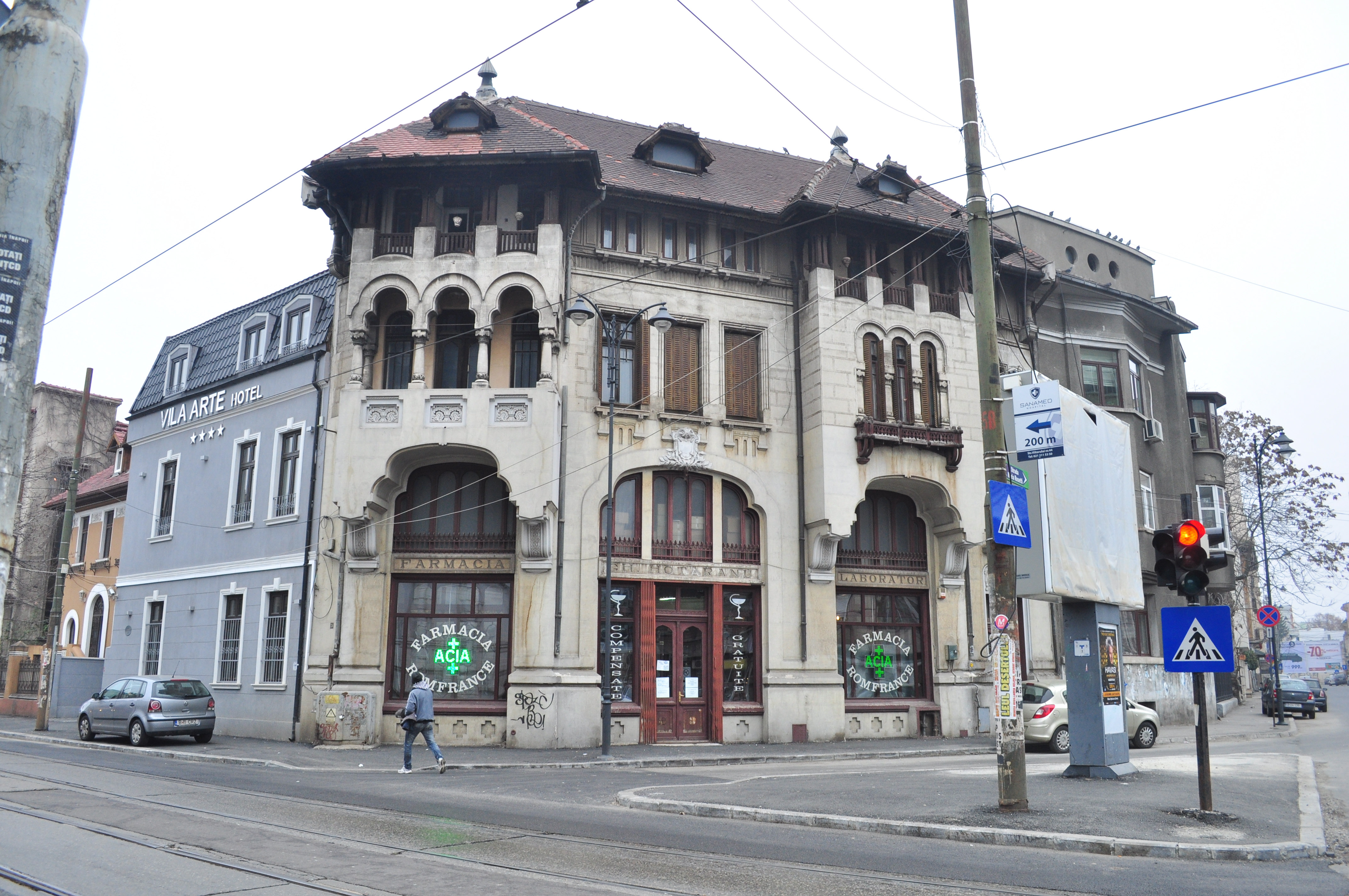 G.H. Hotăranu Pharmacy, Str. Vasile Lascăr, nr. 76, corner of Str. Maria Rosetti, Bucharest Sector 2, Romania.